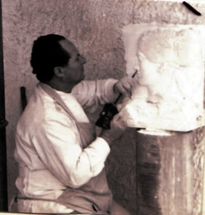 The Artist working on one of his famous reliefs at his Atelier (1970s)